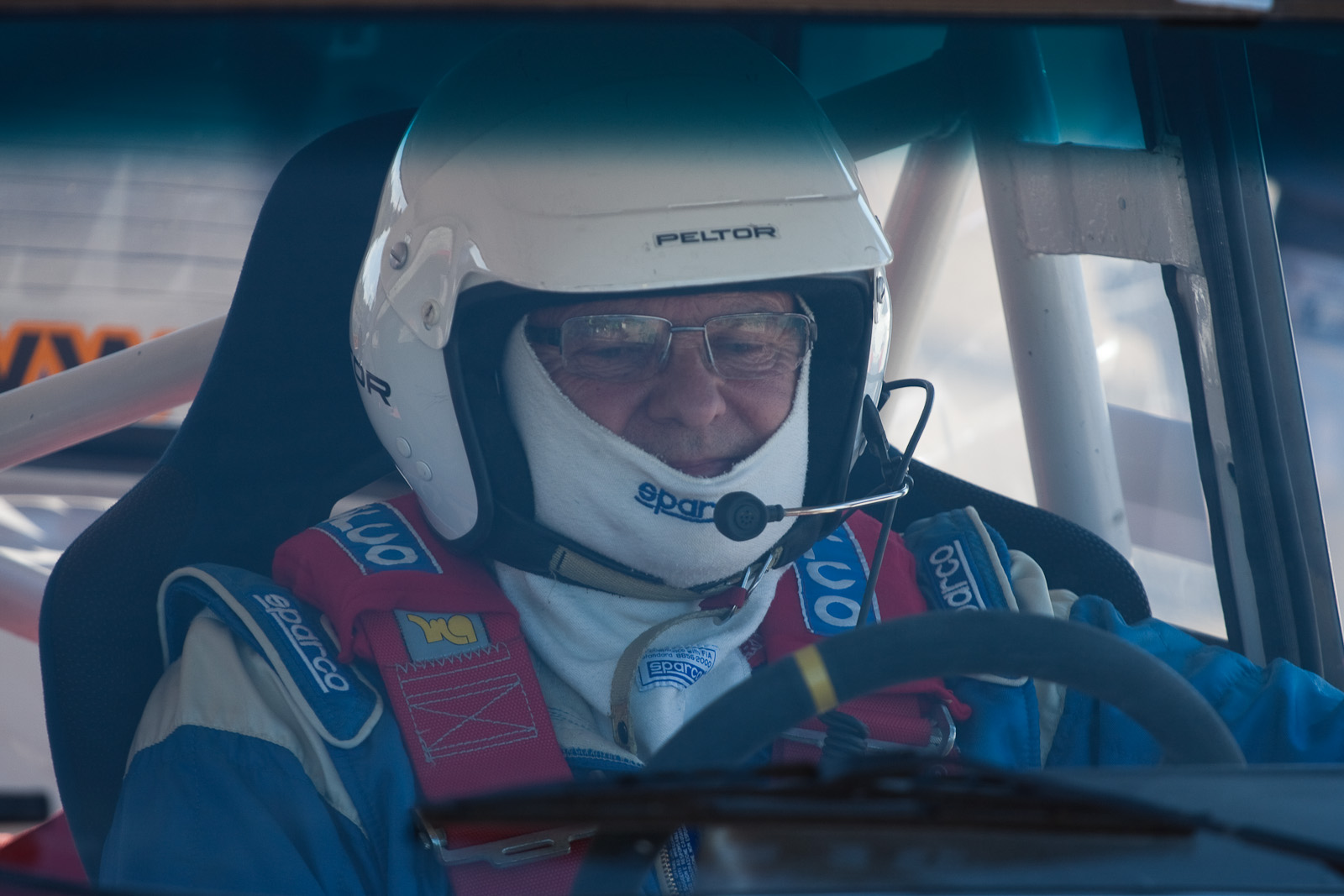 LaitseRallyPark Grand Prix 2010 Rally Legends 05.06.2010